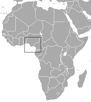 Mamfe Shrew (Crocidura virgata) range